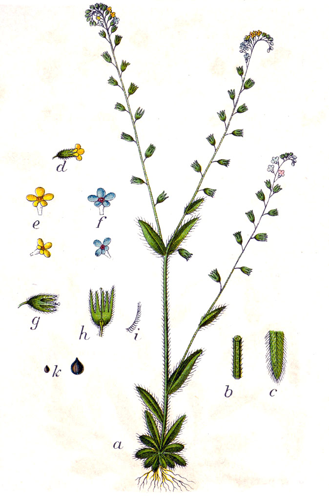 Myosotis discolor subsp. discolor, syn. Myosotis versicolor Sm. Original Caption Farbewechselndes Vergissmeinnicht, Myosotis versicolor